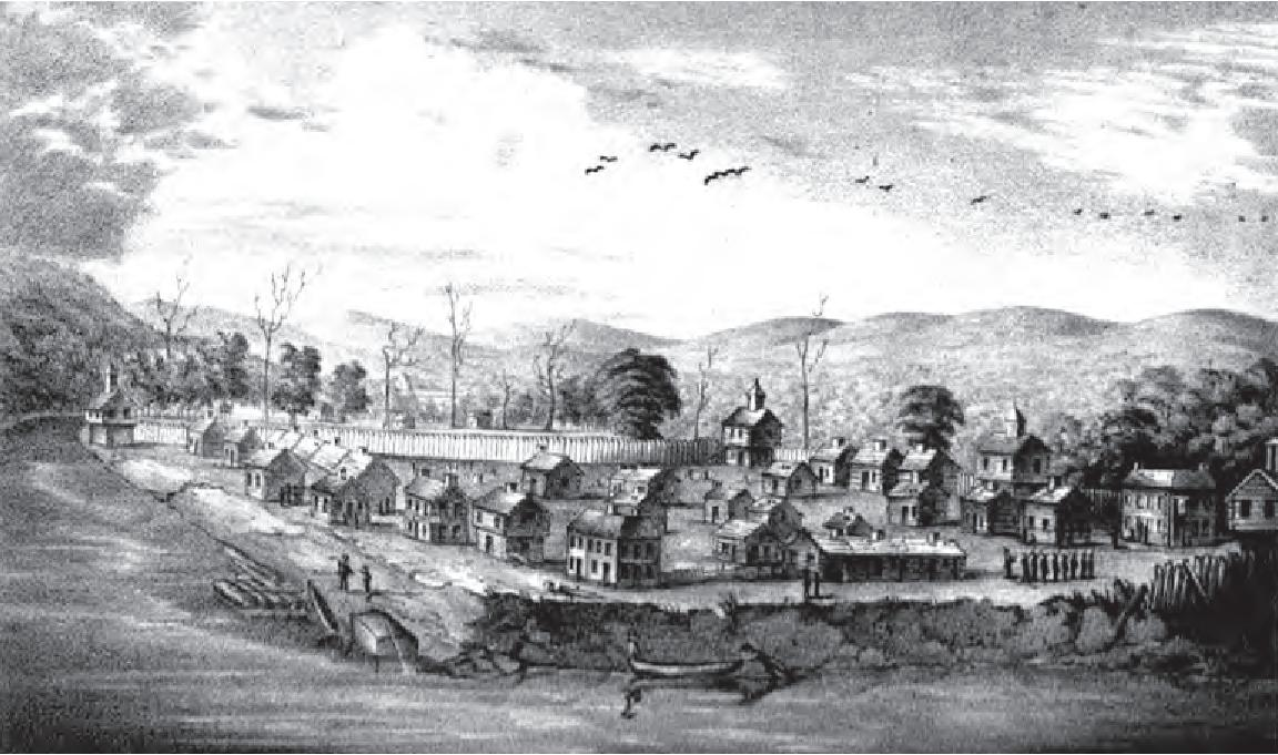 The Picketed Point Stockade at the Marietta, Ohio settlement, located on the east side of the mouth of the Muskingum River, at the confluence of the Ohio and Muskingum rivers. The construction of the stockade was superintended by Col. William Stacy, under the direction of Col. Ebenezer Sproat, during 1791 at the beginning of the Northwest Indian War. In the view of this image, the mouth of the Muskingum River is on the left, and the Ohio River is in the foreground. The Campus Martius fortification of the Marietta settlement was also built on the east side of the Muskingum and upriver from Picketed Point, with construction started during 1788 and completed in 1791. Fort Harmar, constructed in the autumn of 1785, was located directly across the Muskingum, on the west side of the mouth. From the book by S. P. Hildreth: Pioneer History: Being an Account of the First Examinations of the Ohio Valley, and the Early Settlement of the Northwest Territory, H. W. Derby and Co., Cincinnati, Ohio (1848). Illustration plate located between pp. 324-25. ColWilliam 22:48, 10 September 2007 (UTC)